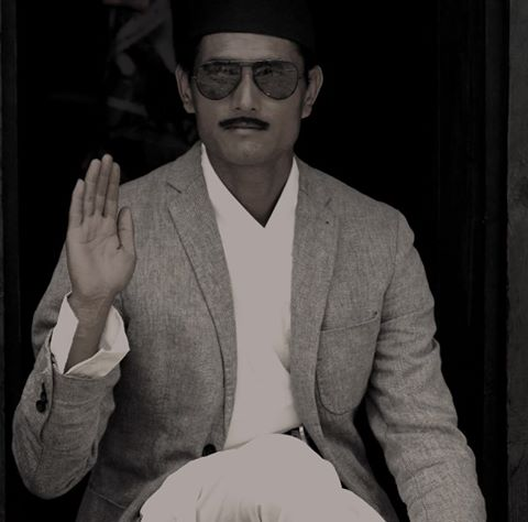 During the Shoot of Bir Bikram.